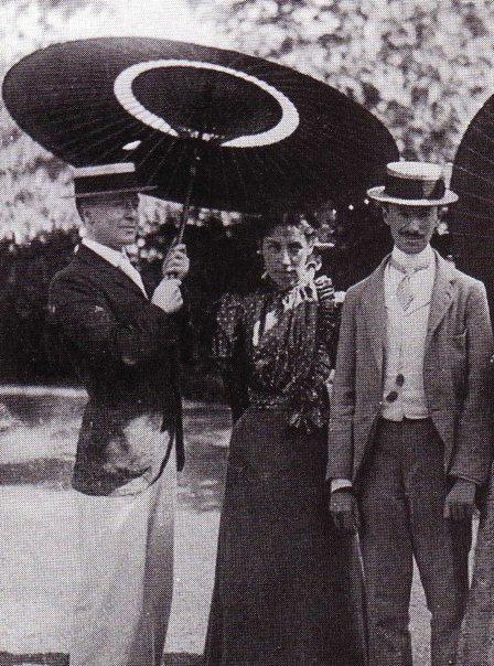 John Gray (1866-1934) his sister Sophie, and his lover Marc-André Raffalovich (1864-1934), 1896.